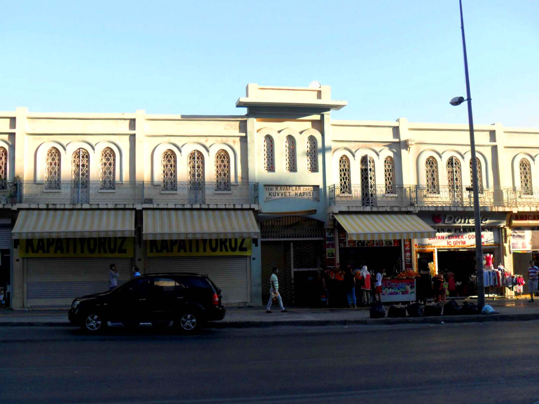 Yeni Kavaflar Market in İzmir, Turkey